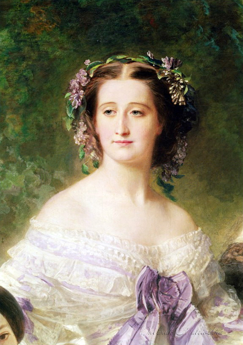 Empress Eugénie of the French